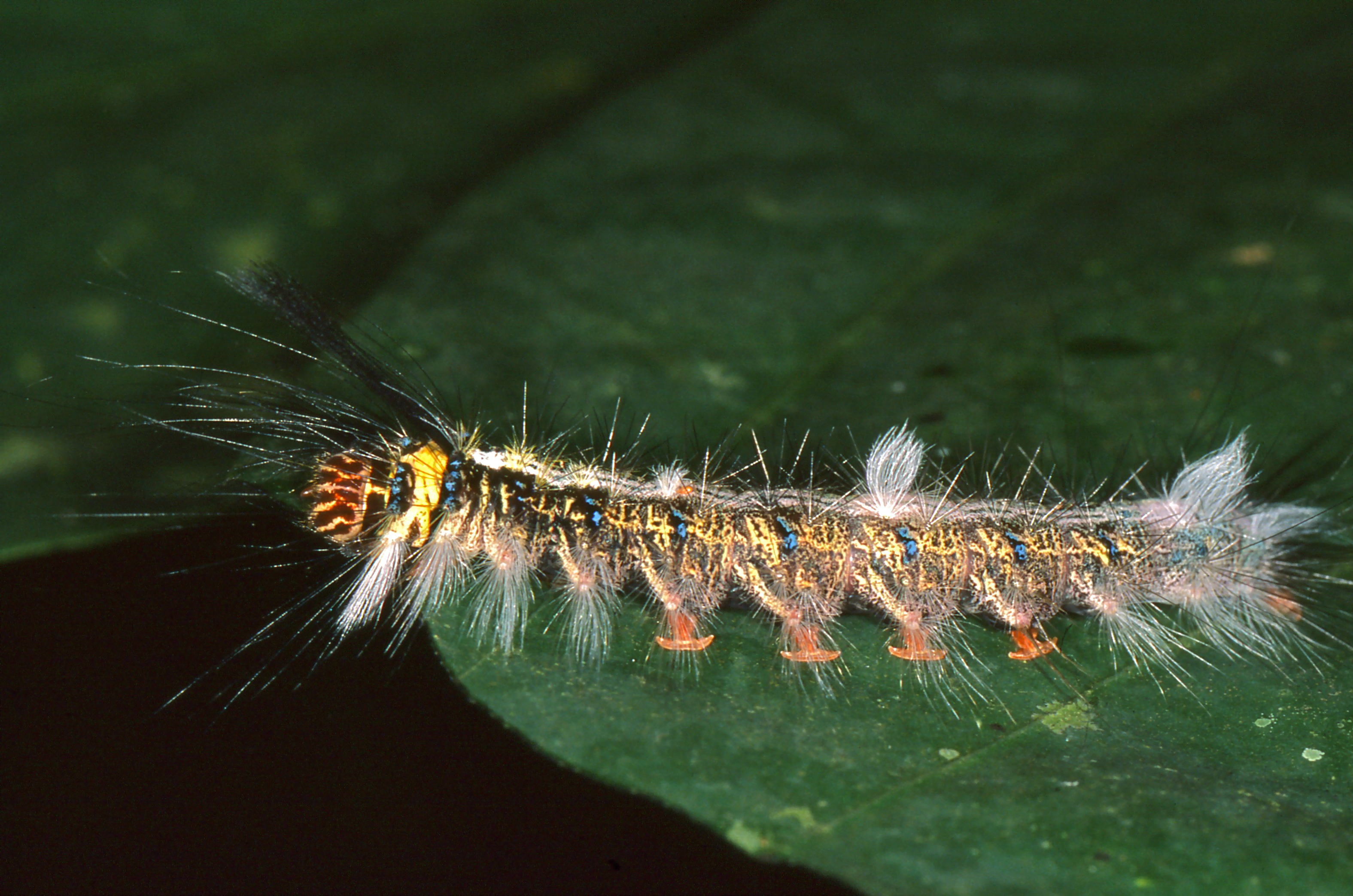 Khao Yai NP, THAILAND Scanned Slide from October 2005